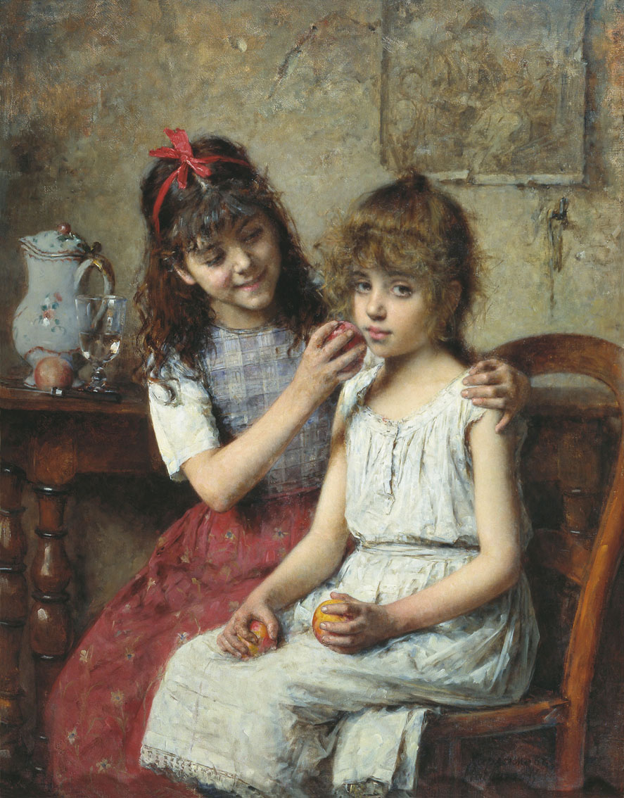 Two Girls